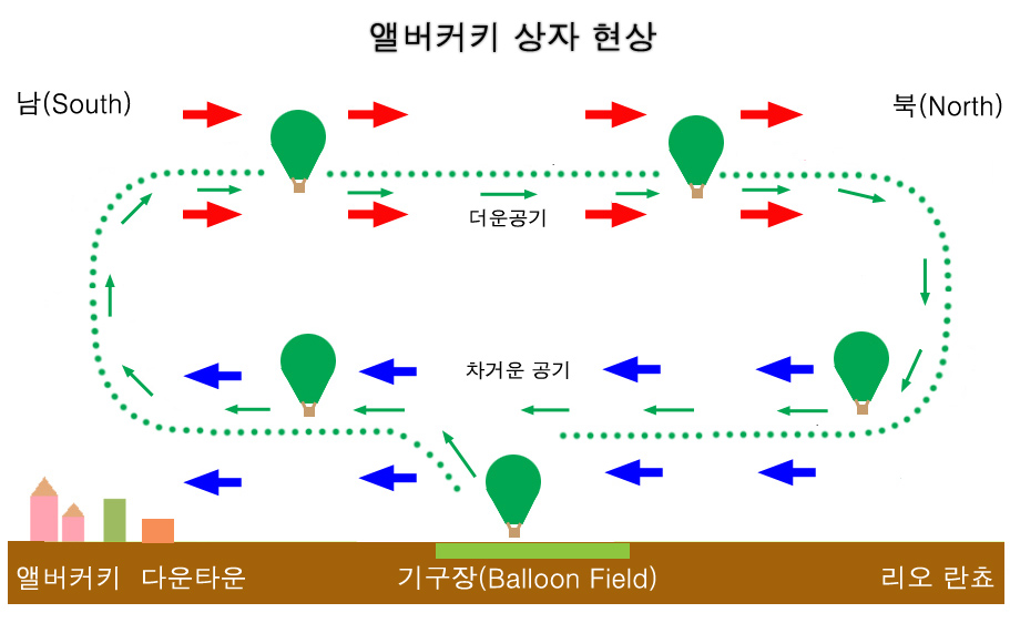 Albuquerque Box. Diagram shows two directional winds.